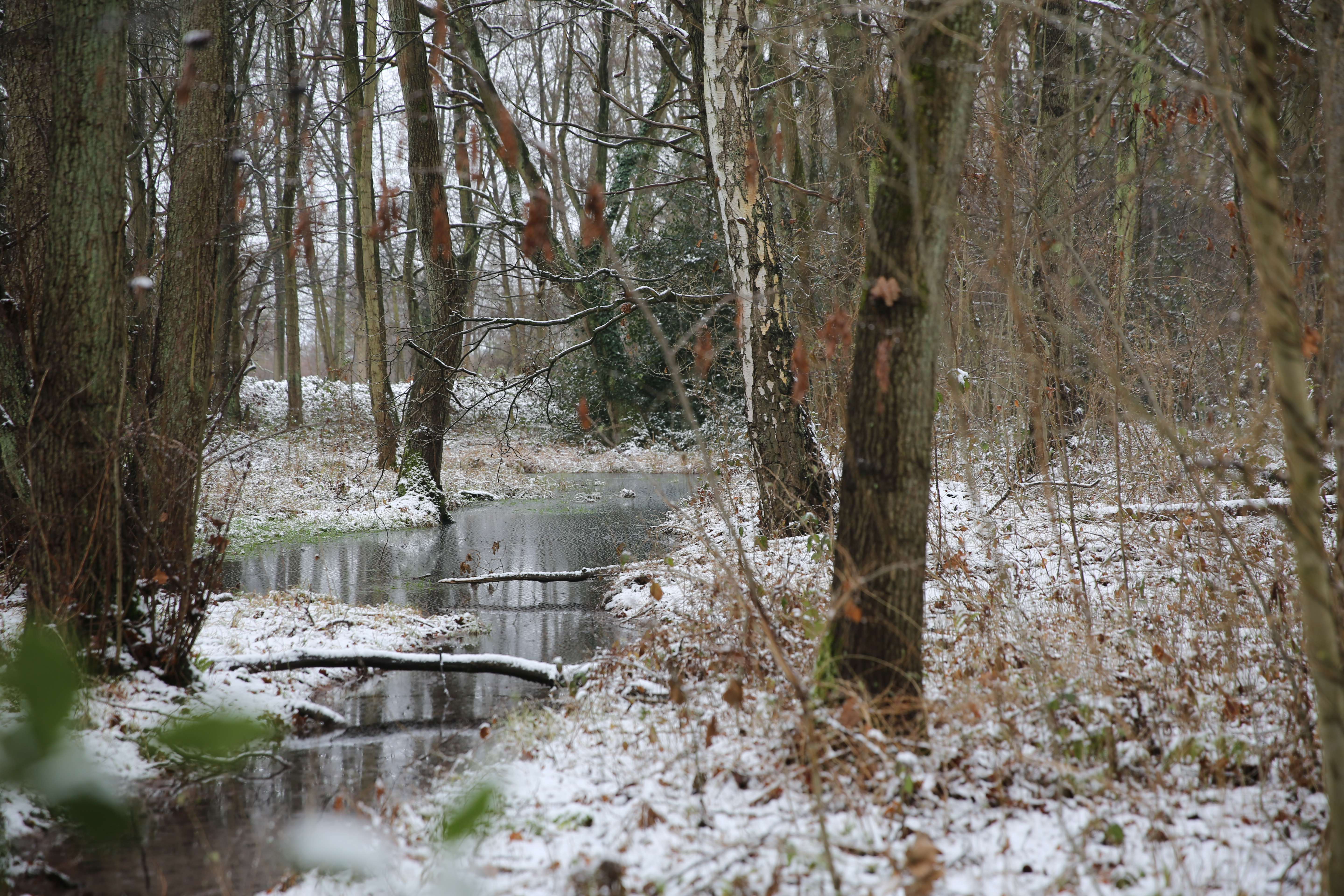 Light snowfall, Tueddern, Selfkant